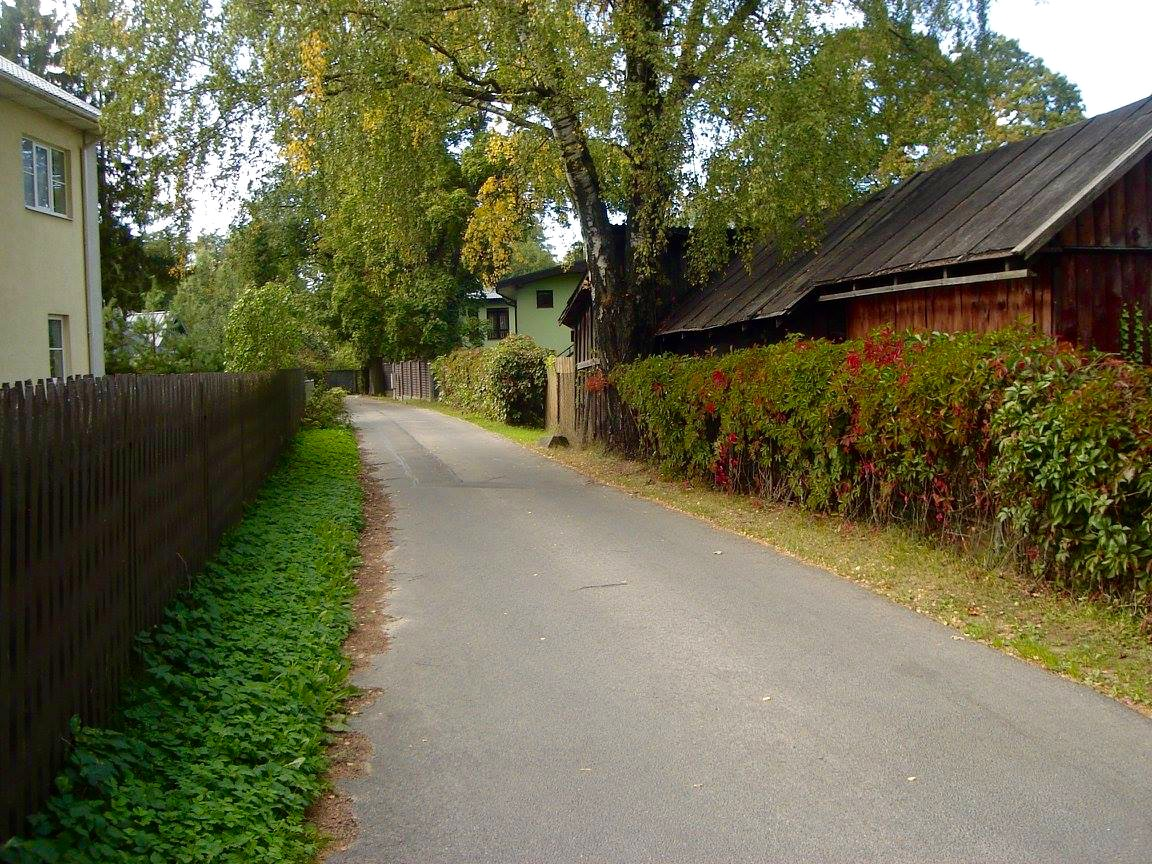 Riga, Aurenieku street.